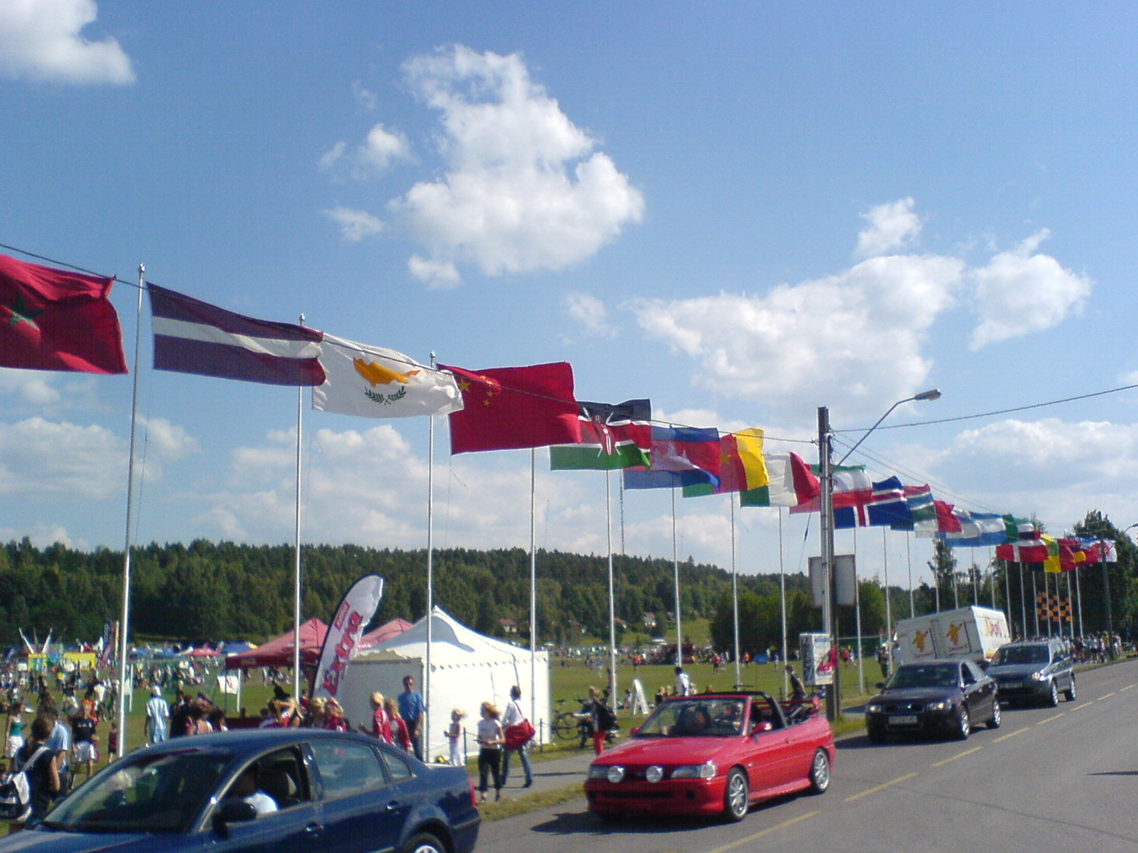 The flags of Norway Cup. I couldn't fit all into my picture. The flags represent all nations that are participating. Taken myself on my cellphone.